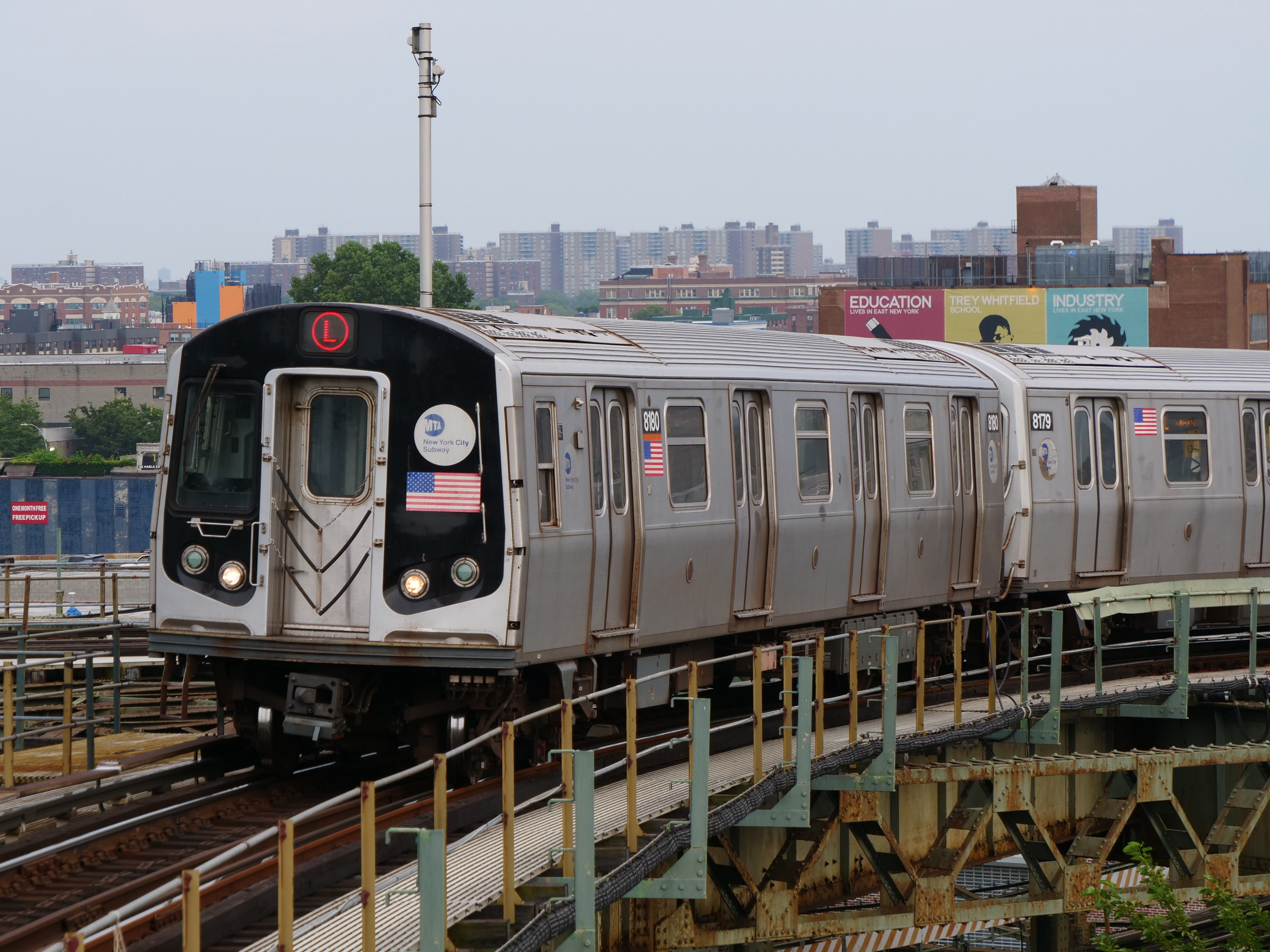 A westbound R143 L train to 8th Avenue taking the curve just before Broadway Junction, BMT Canarsie Line.